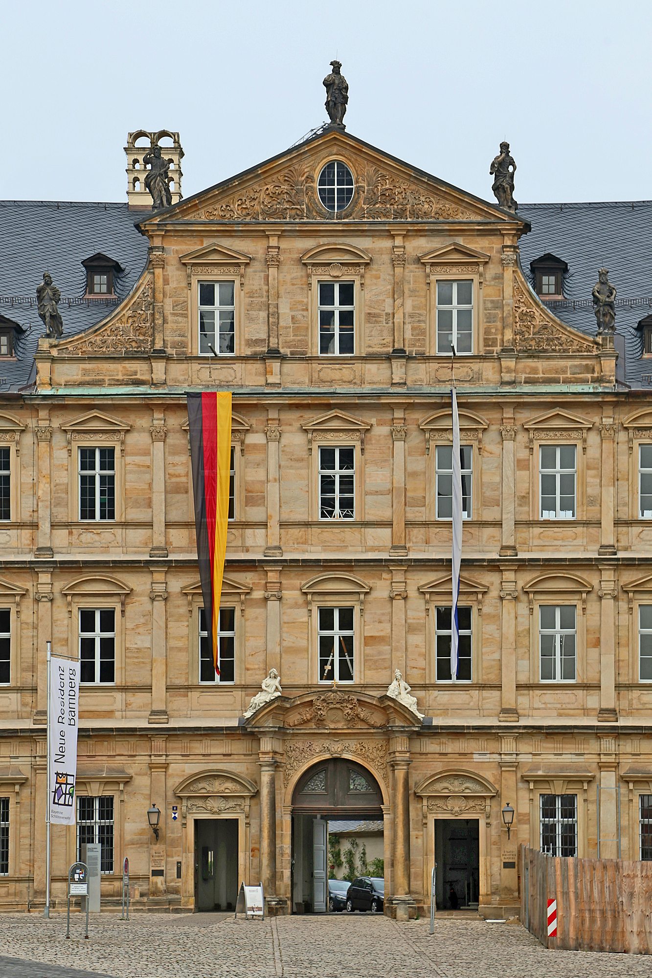 Bamberg (Bavaria), "Neue Residenz" at the Domplatz ( former residence of the bischops, now Staatsbibliothek).